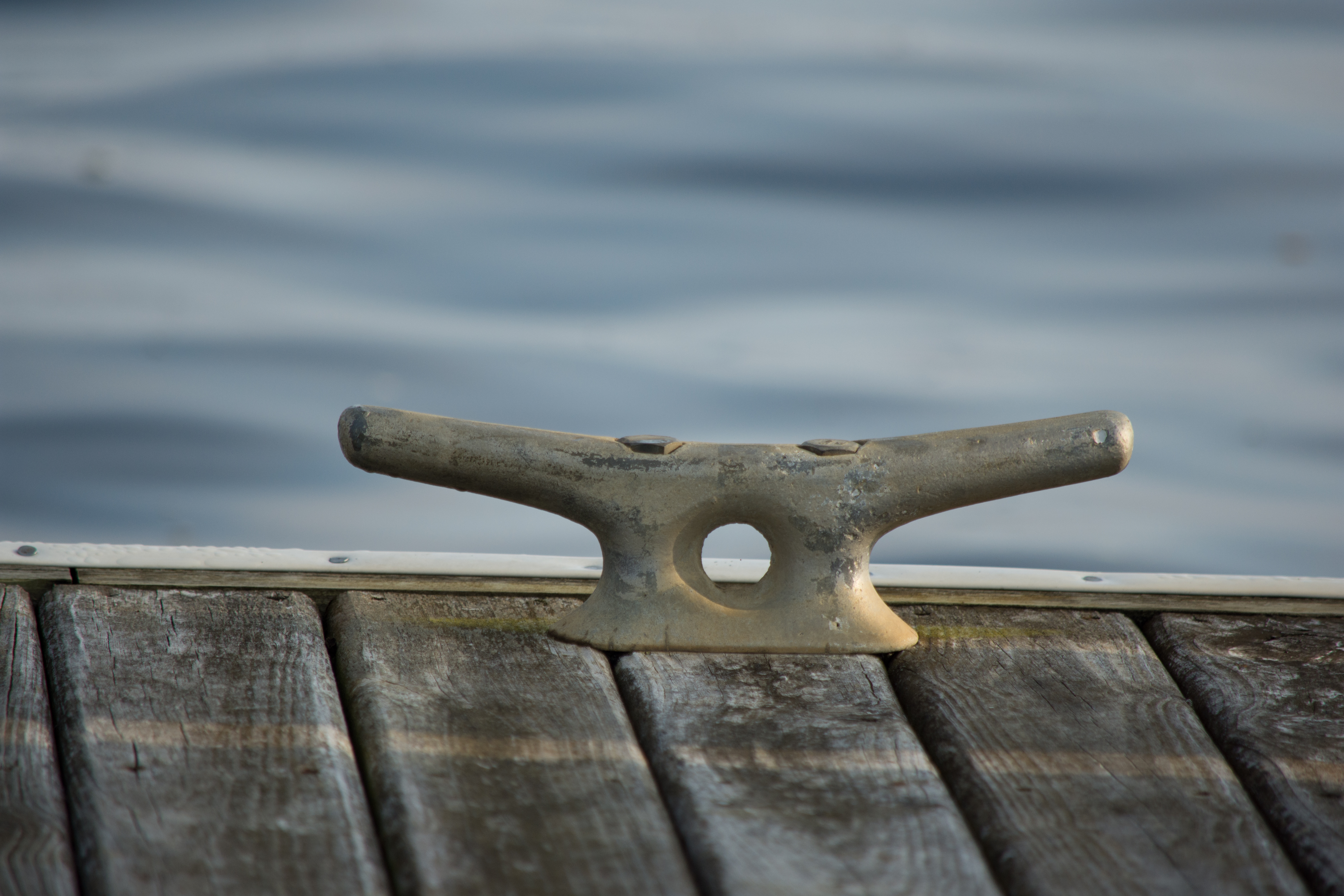 Boat Cleat